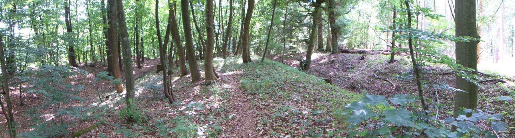 The Neue Landwehr, a rampart eastward of Lüneburg, Lower Saxoy, Germany. Erected 1479 - 1484.